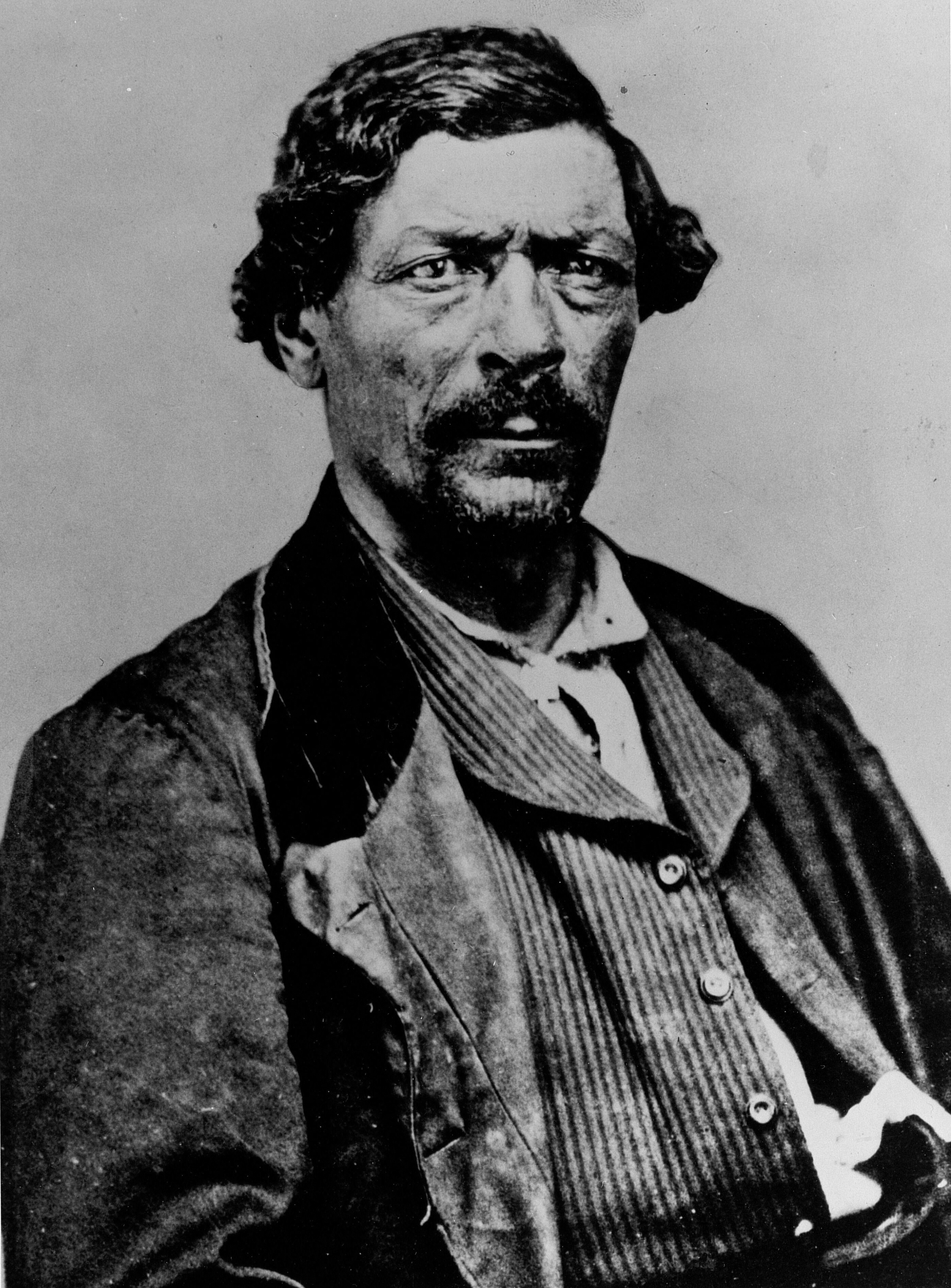 James Beckwourth (1798-1866) was an American mountain man, fur trader, and explorer. An African American born into slavery in Virginia, he was freed by his father and apprenticed to a blacksmith; later he moved to the American West.